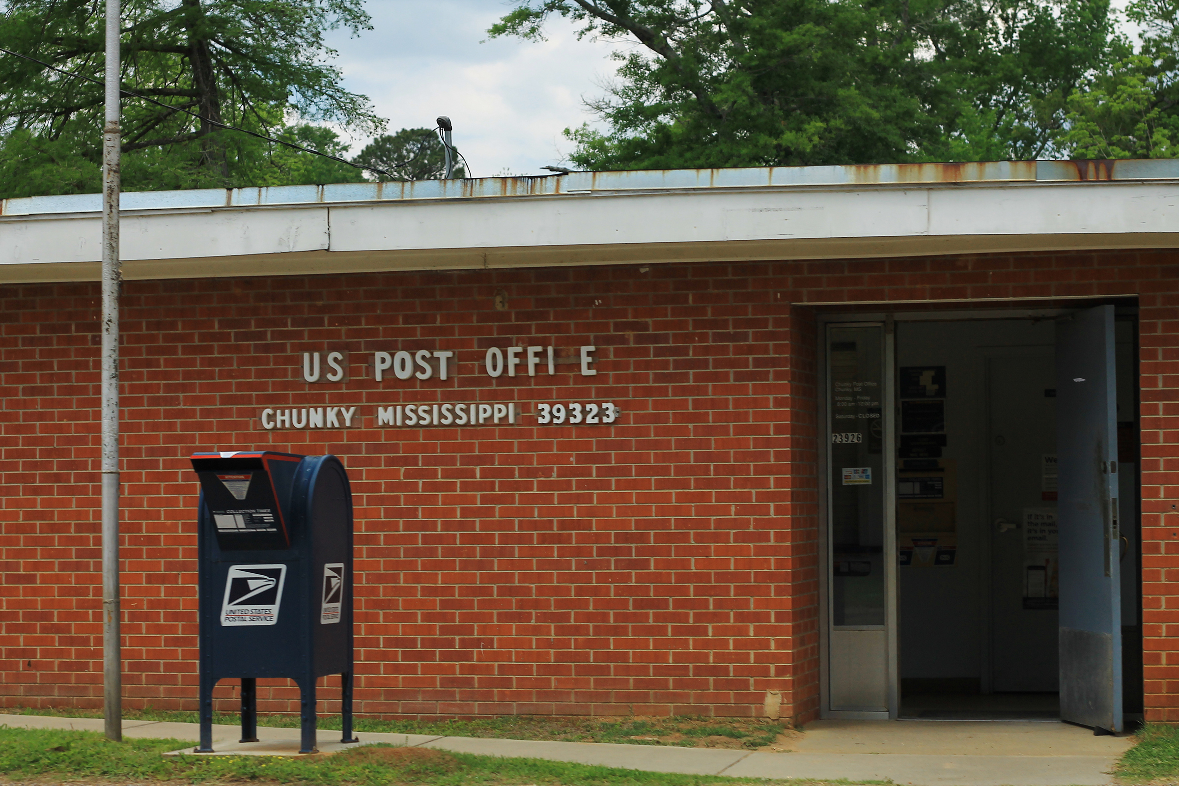 Chunky MS Post Office